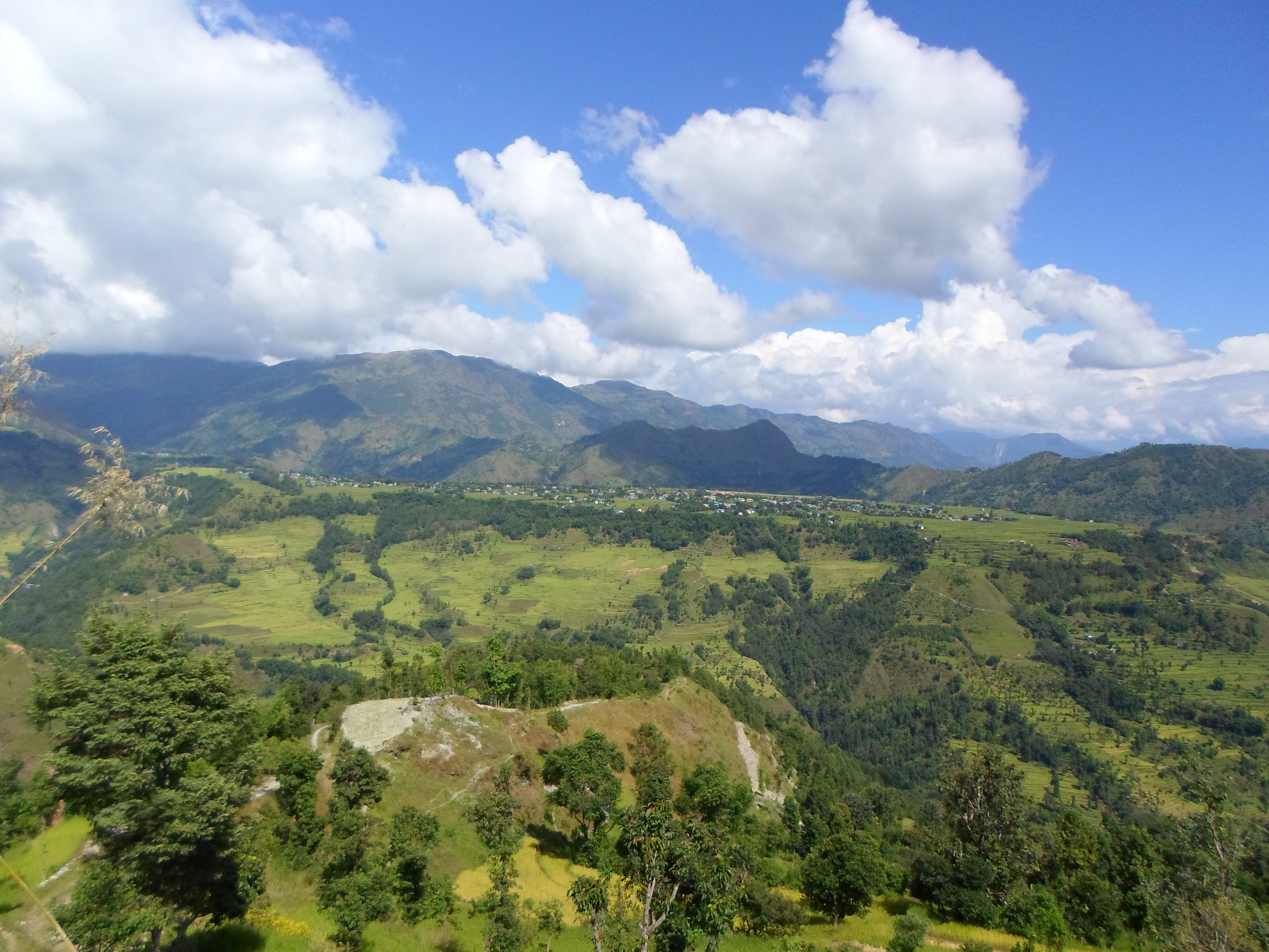 focusing towards Rumjatar